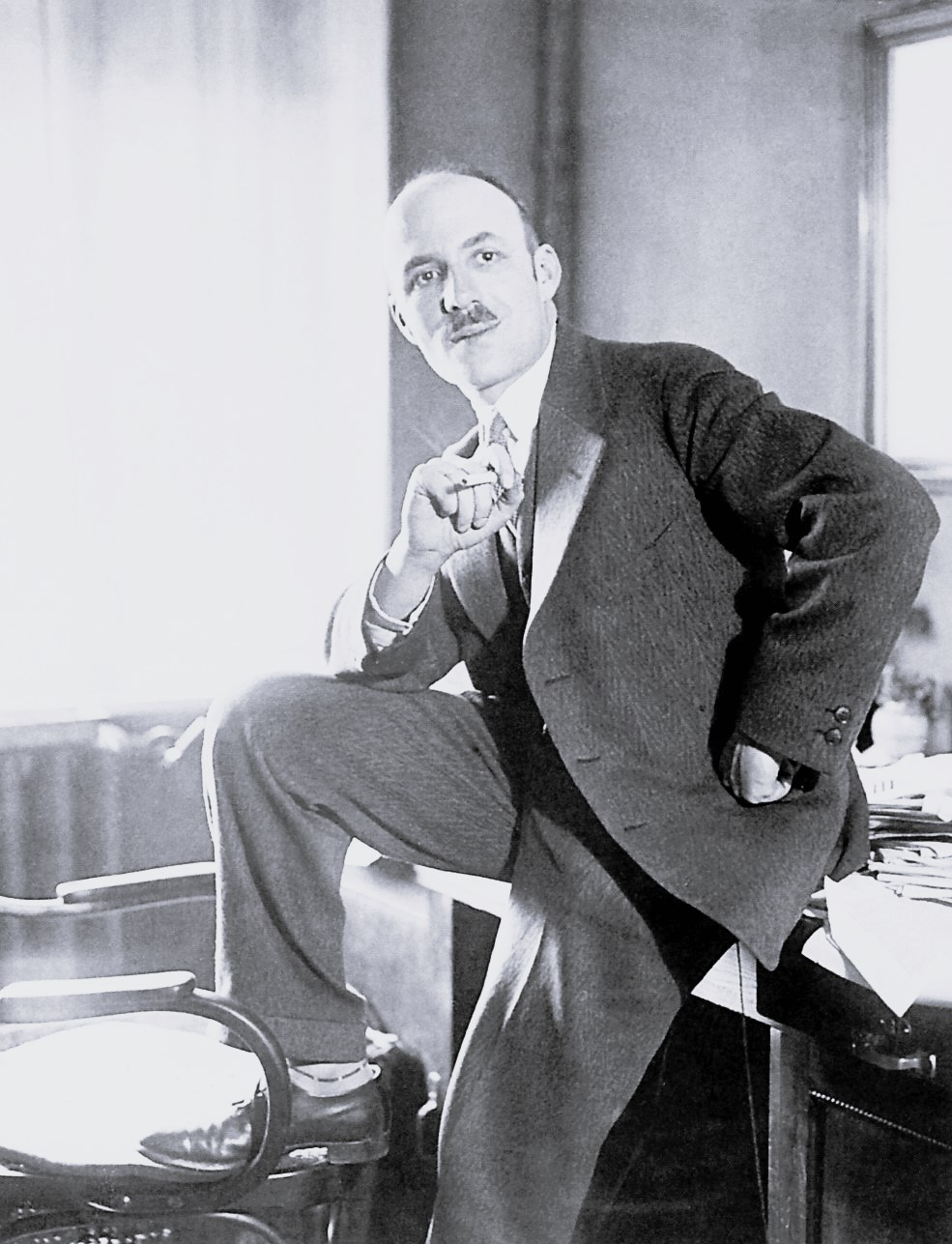 Fritz Solmitz (1893-1933), German Social Democratic politician and journalist